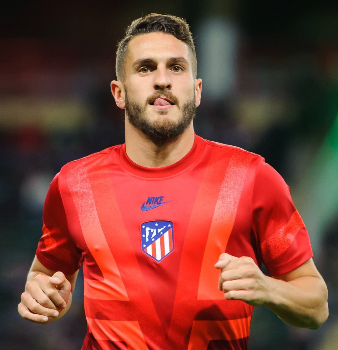 Koke with Atlético Madrid before the Champions League game against FC Lokomotiv Moscow.